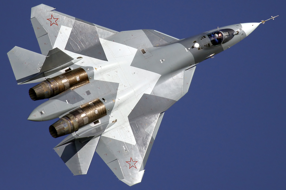 Sukhoi T-50 stealth multirole aircraft at MAKS-2011 airshow